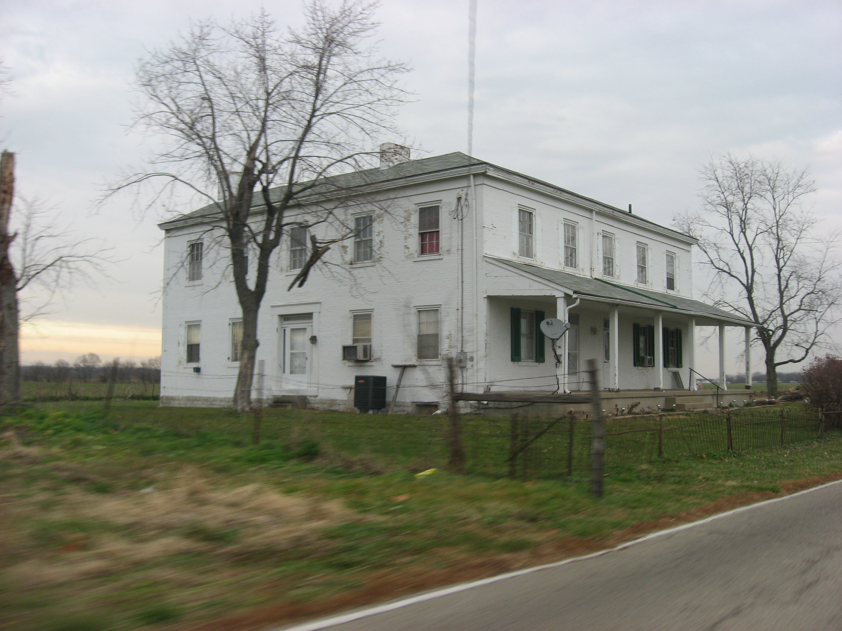 Front and western side of the John Kennel, Sr., Farmhouse, located at 5506 Kennel Road in Trenton, Ohio, United States. Built in 1873, it is listed on the National Register of Historic Places.